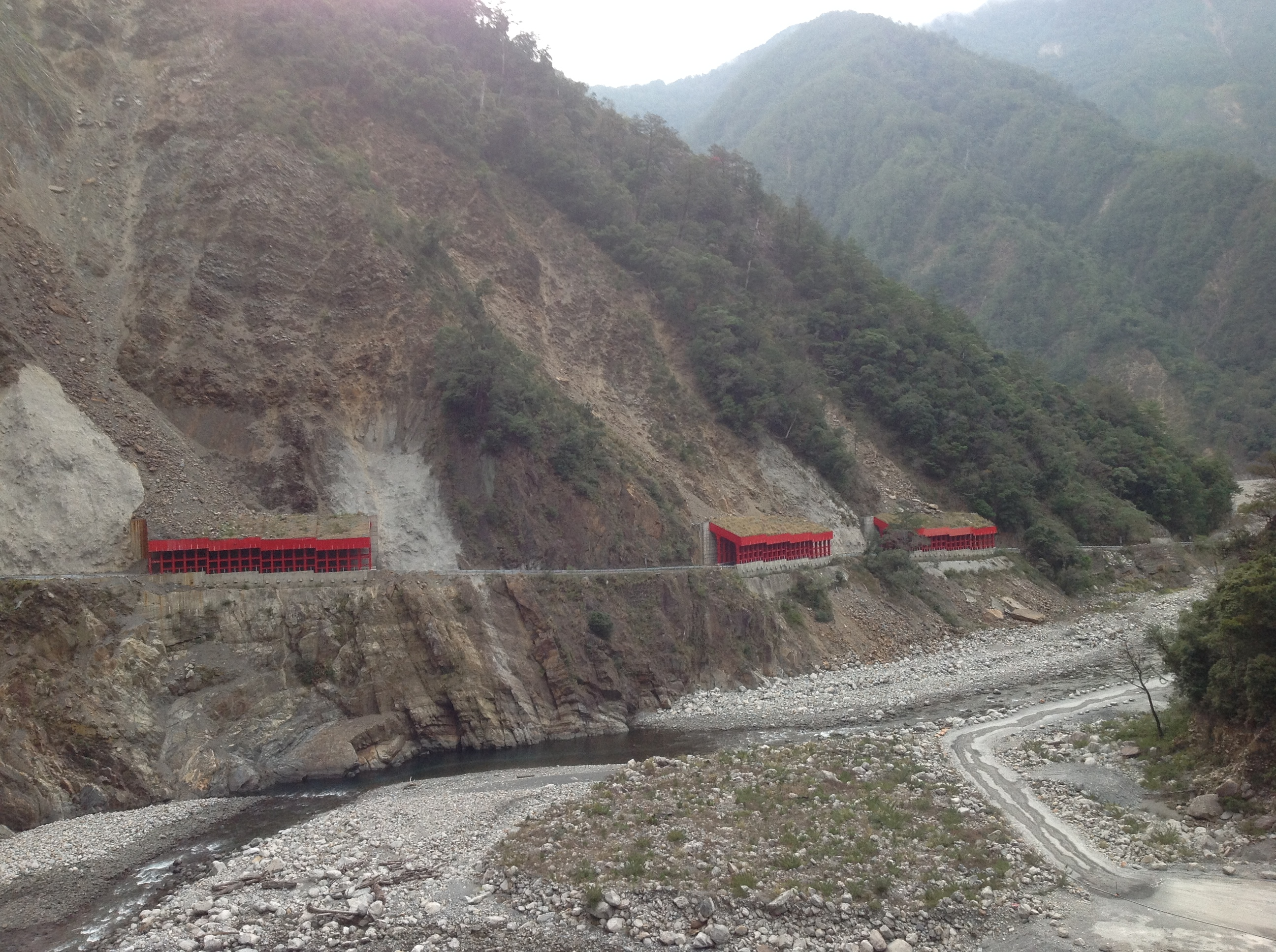 Landslides in Taiwan Provincial Highway No.8-1 (Temporary Path No.37)